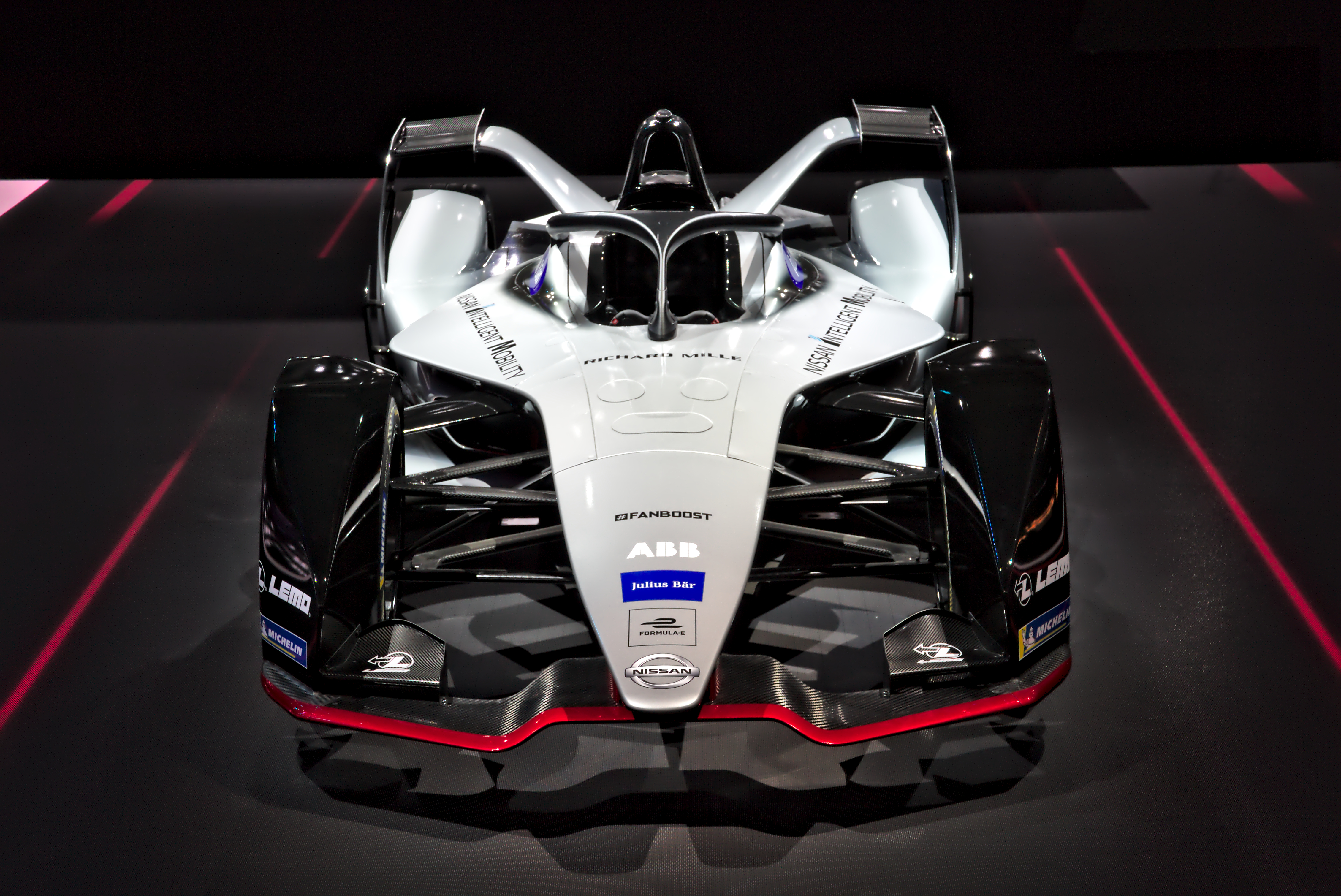 Nissan Formula E vehicle at Geneva Motorshow 2018